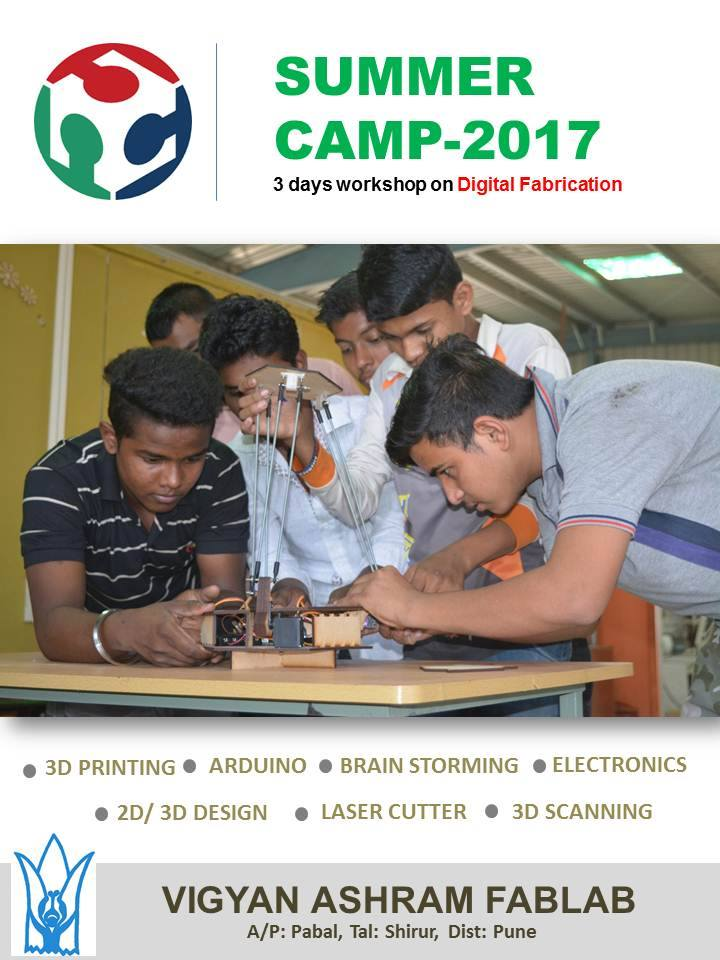 assembling 3D printer